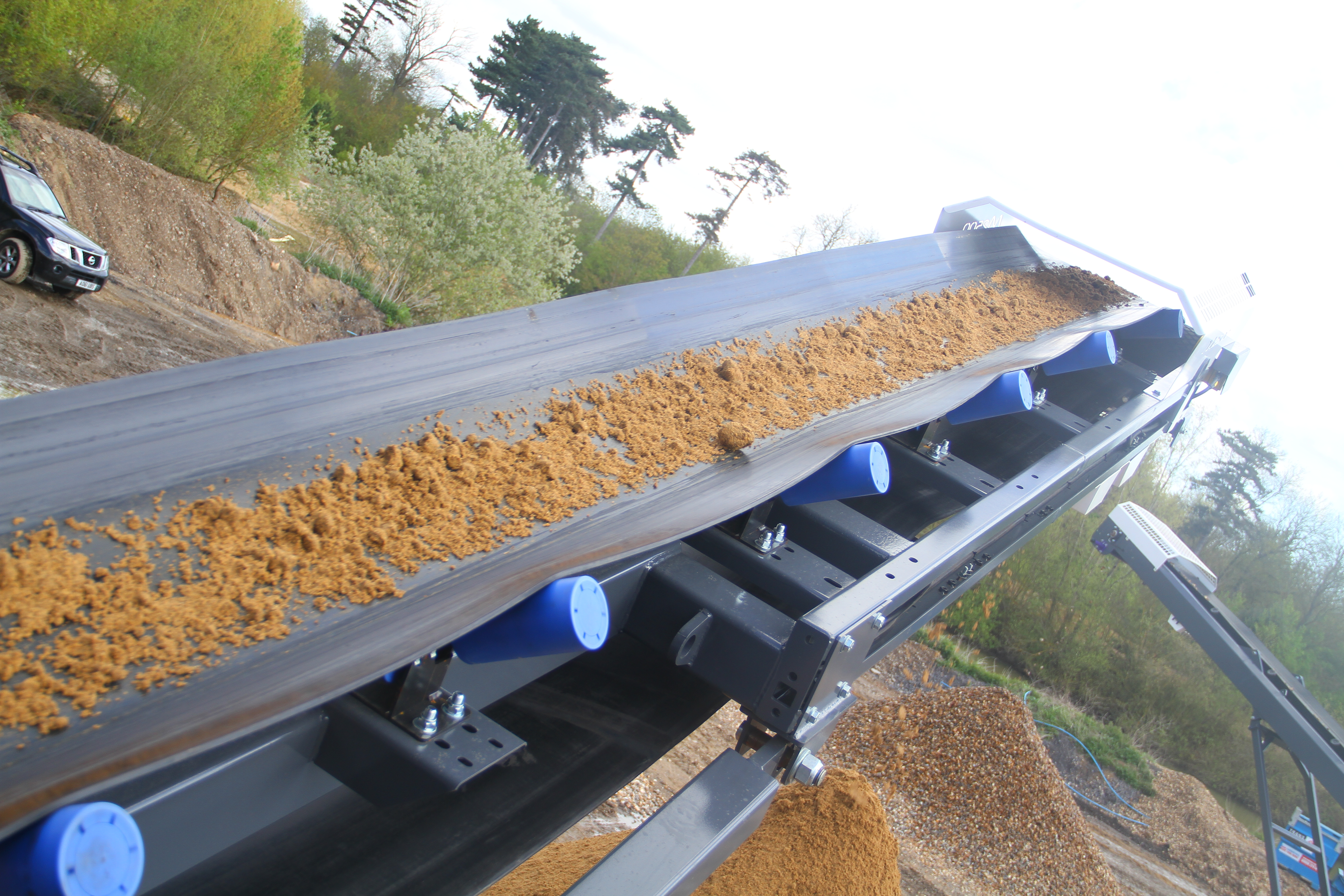 Material on conveyor during commissioning